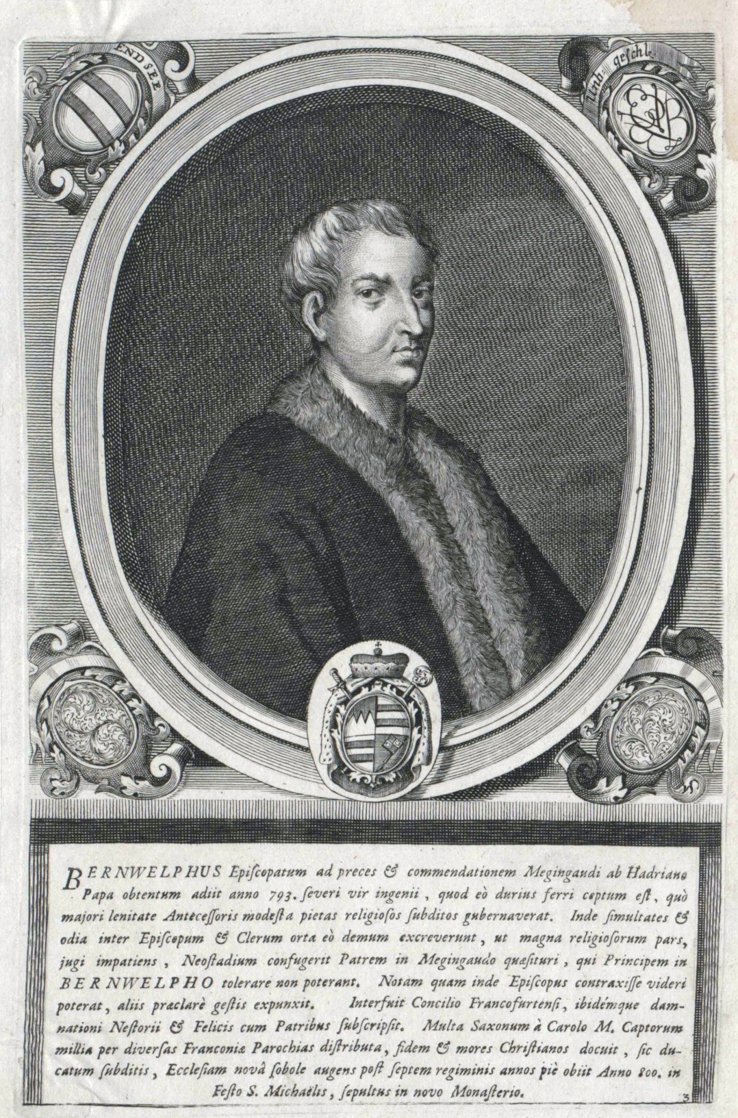 Berowelf († 794)